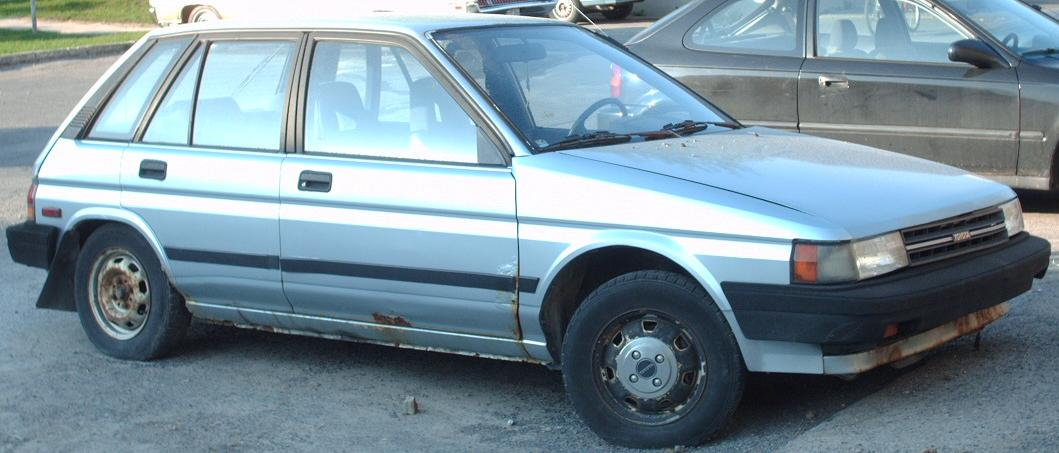 1987-1990 Toyota Tercel photographed in Montreal, Quebec, Canada.